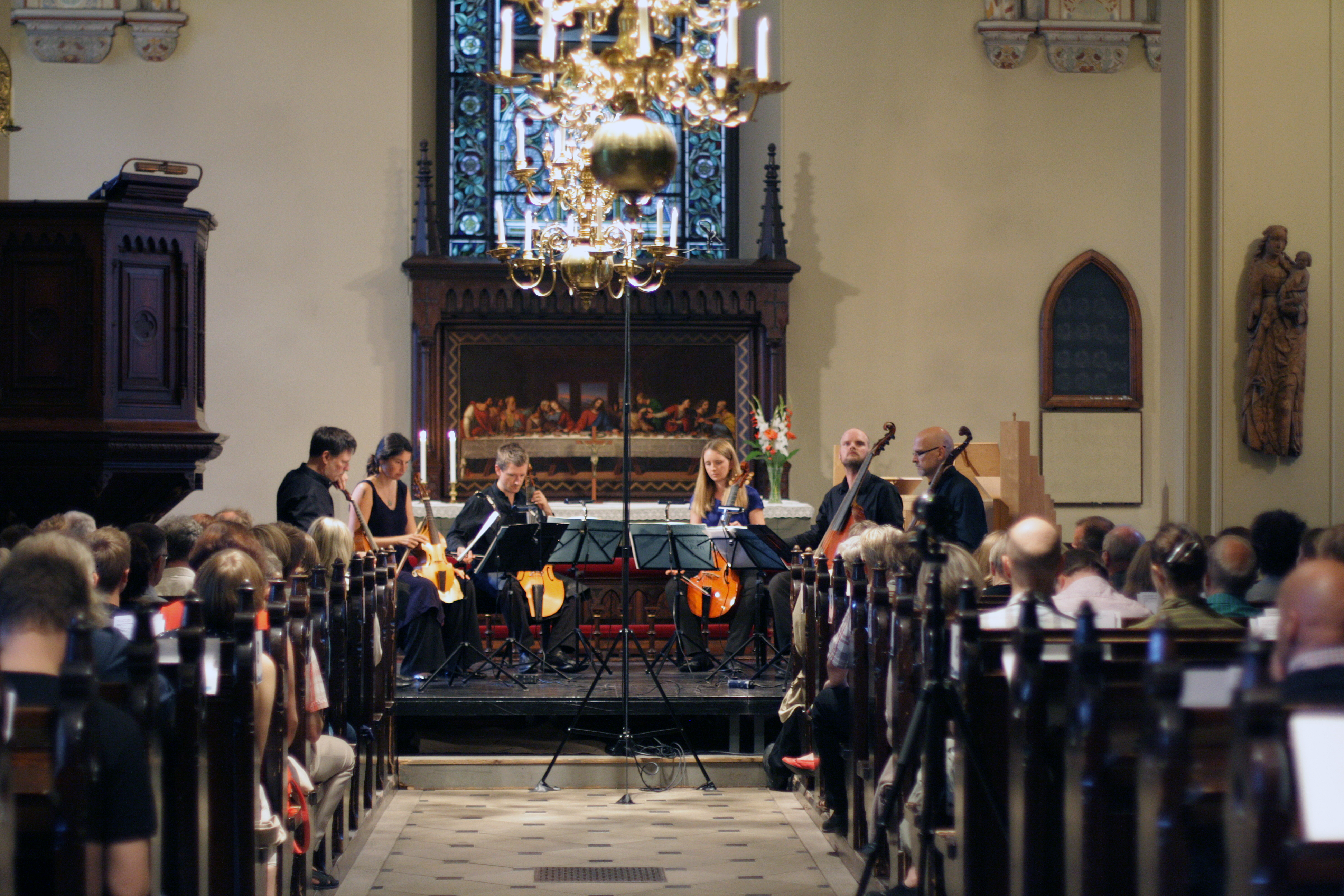 Phantasm performs regularly at BRQ Vantaa.